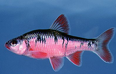 Crescent shiner (Luxilus cerasinus), nuptial male)